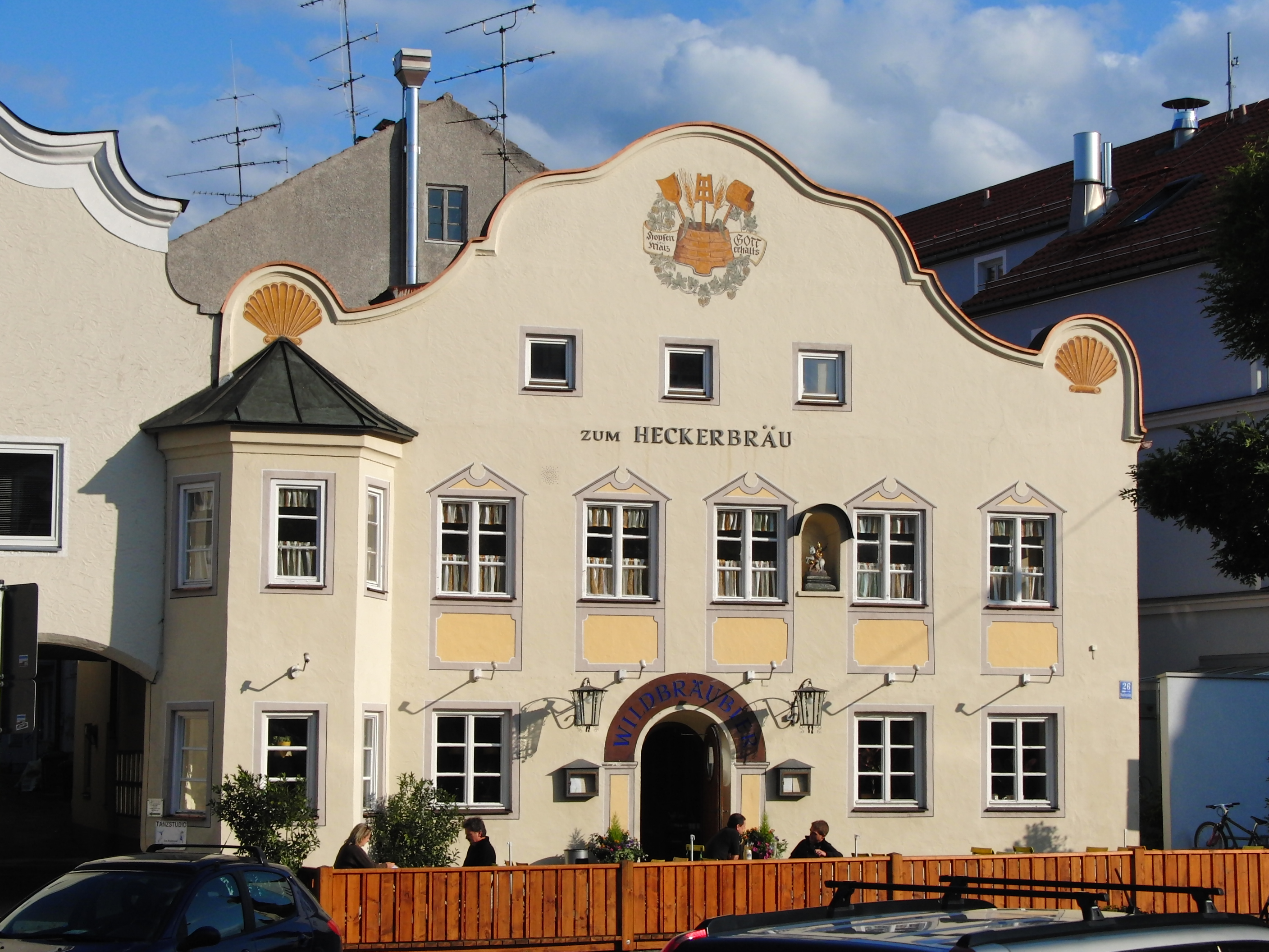 Heckerbräu inn at the Marktplatz of Grafing, Bavaria, Germany